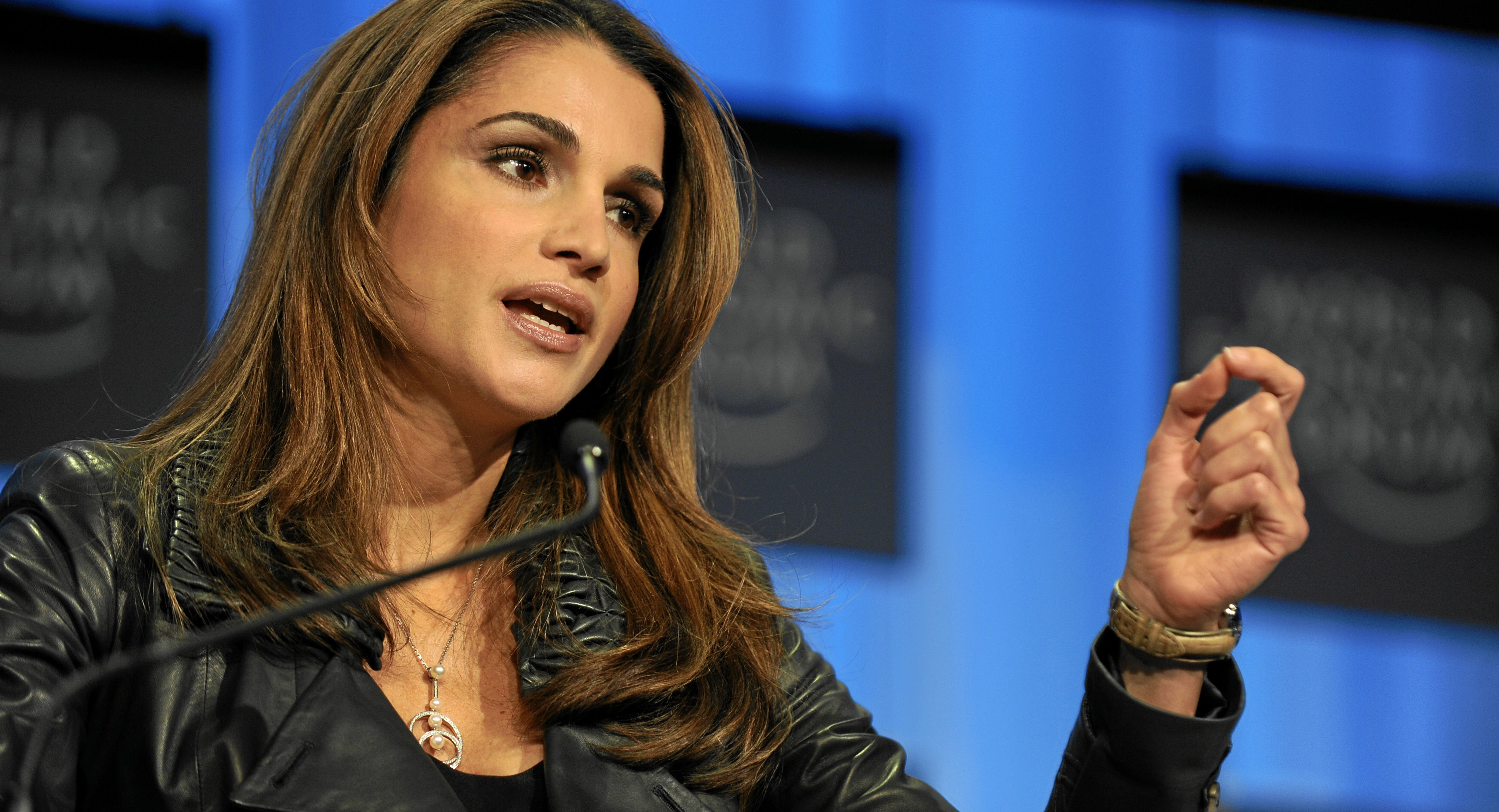 Her Majesty the Queen of the Hashemite Kingdom of Jordan at the 2010 World Economic Forum.